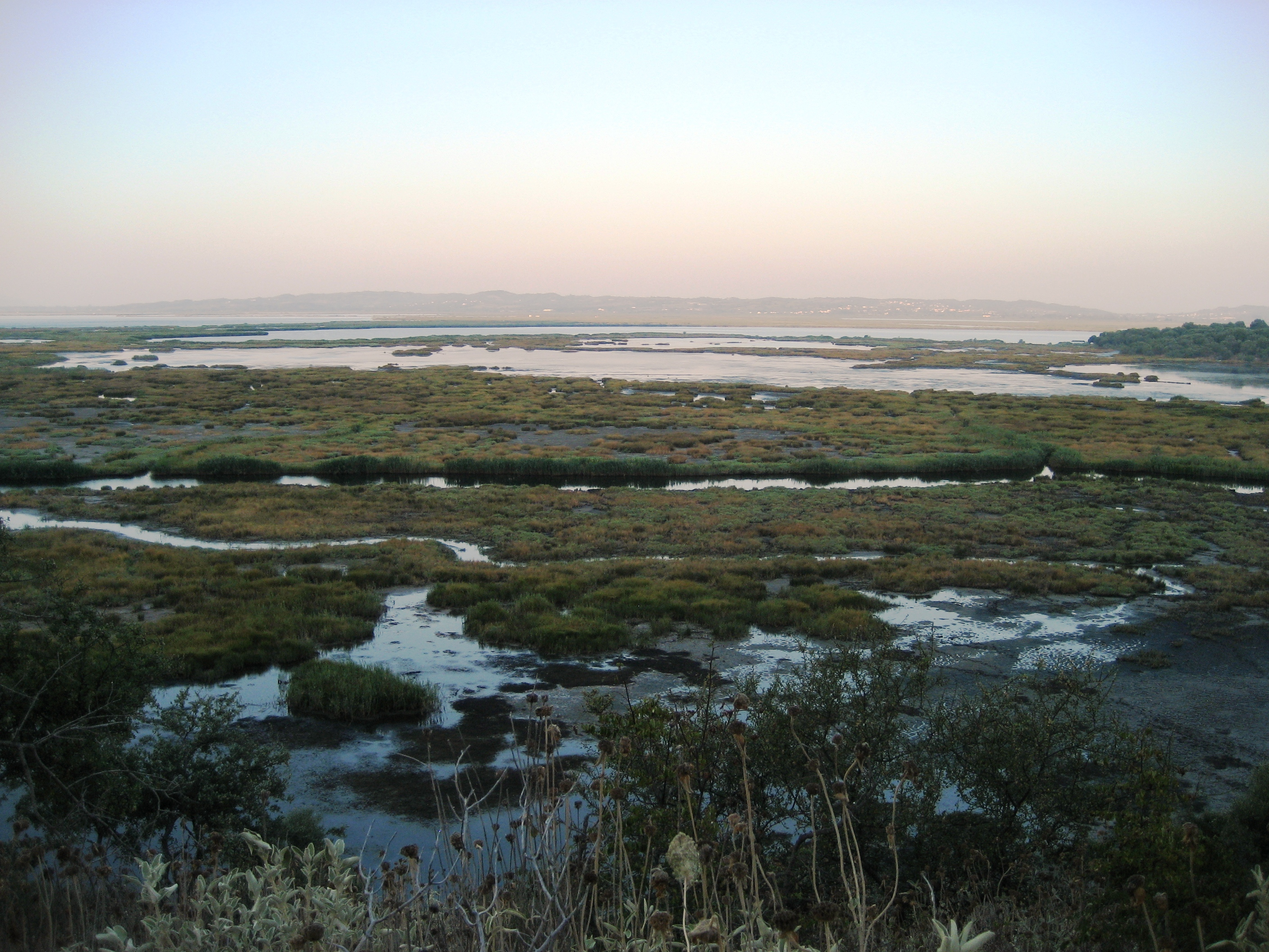 Ambracian Gulf in Greece, early in the morning, near the village of Strongili.